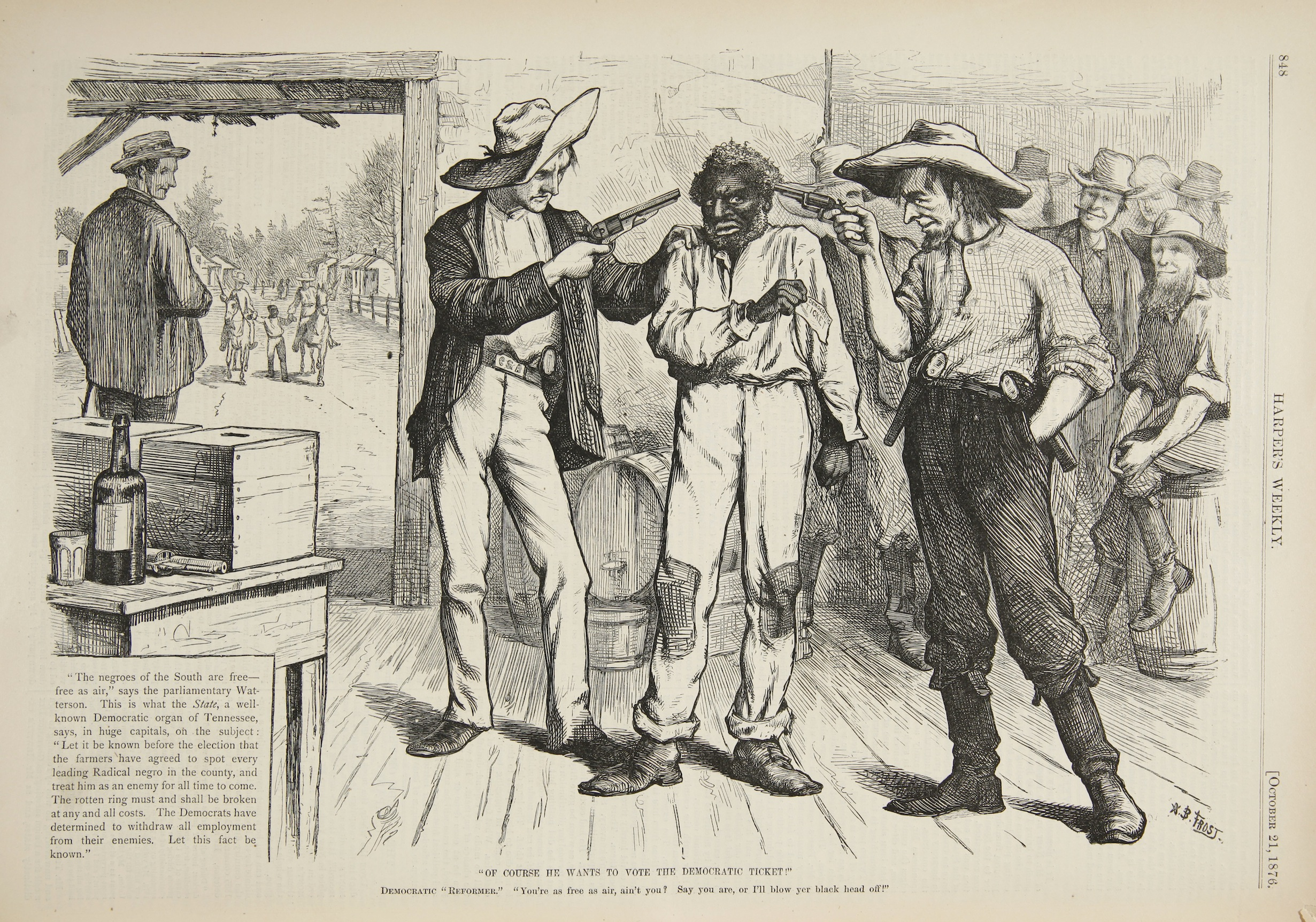 'Of Course He Wants To Vote The Democratic Ticket' (October 1876), Harper's Weekly.